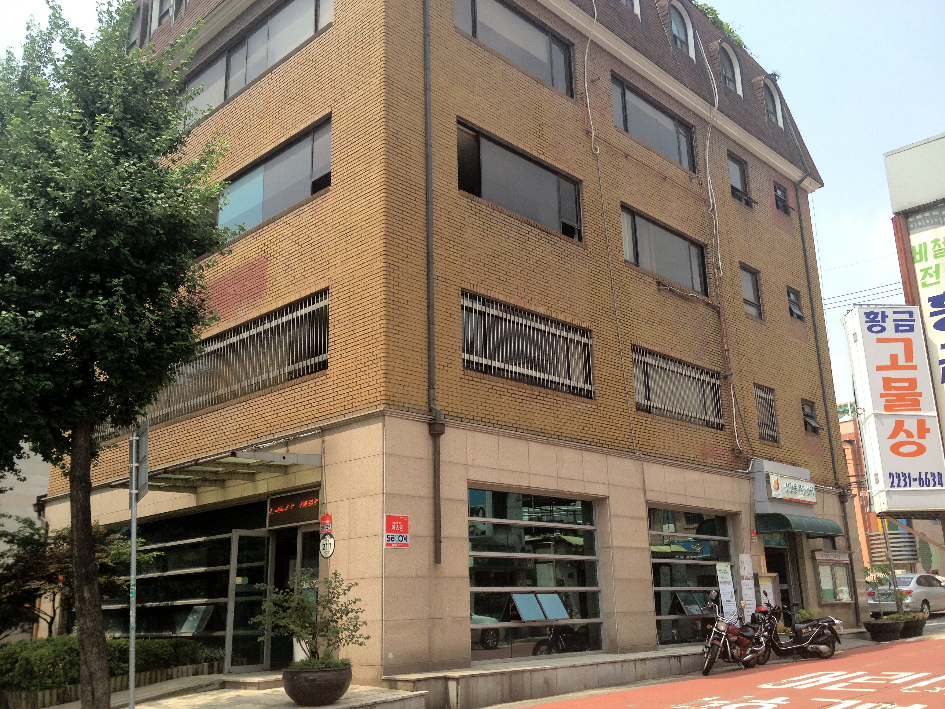 Sindang-dong Community Service Center(Jung-gu)